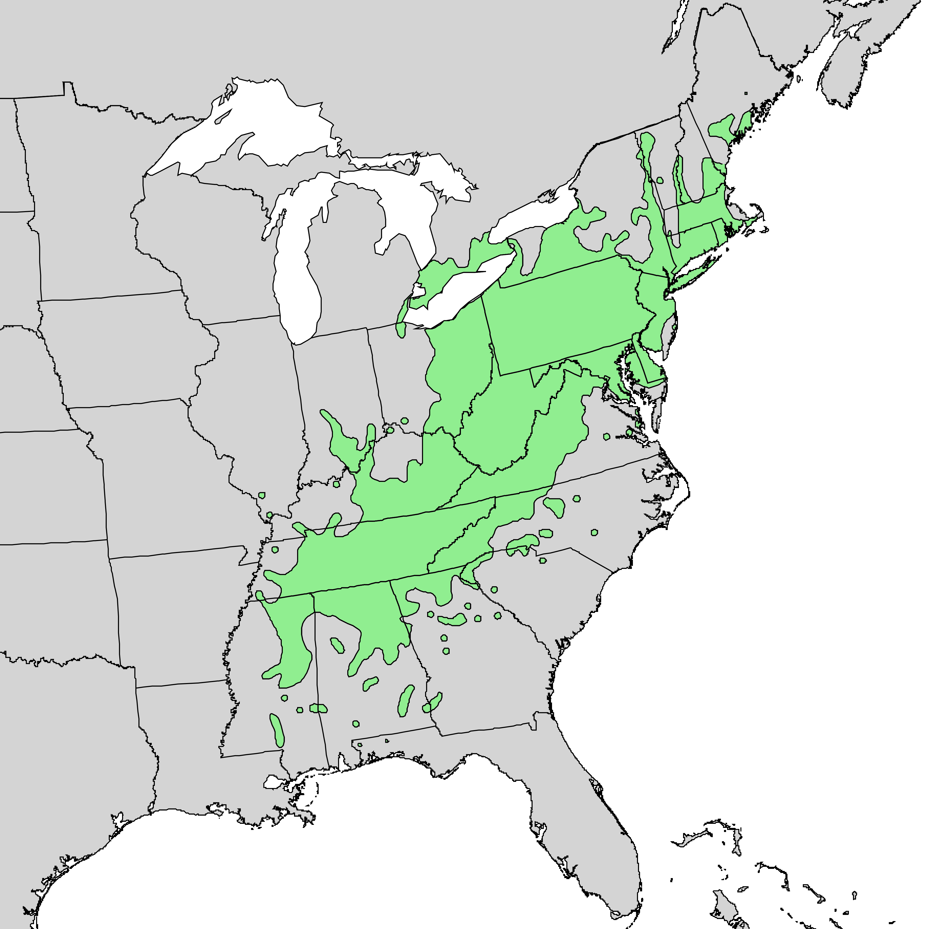 Natural distribution map for Castanea dentata